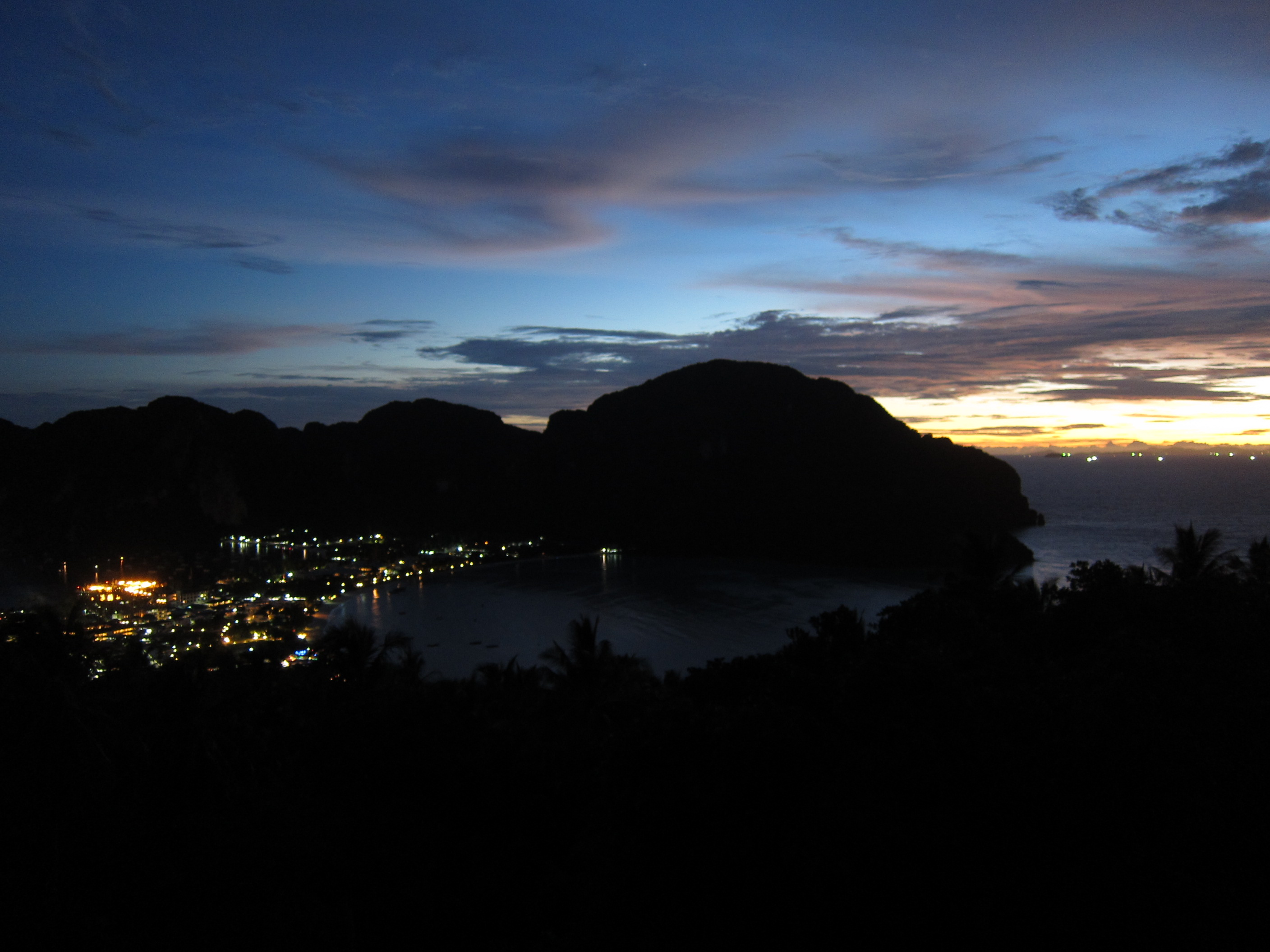 Ko Phi Phi after sunset, as seen from the Viewpoint.